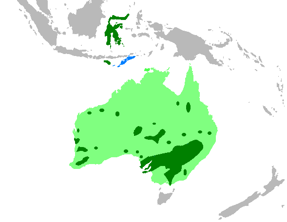 Distribution of the Spotted Harrier (Circus assimilis). Dark green: strongholds, light green: year-round distribution, blue: off-breeding distribution. Unclear whether Sumba and Timor belong to breeding areas. Based on: James Ferguson-Lees, David A. Christie: Raptors of the World. Houghton Mifflin Harcourt, 2001, ISBN 0618127623, p. 477−479